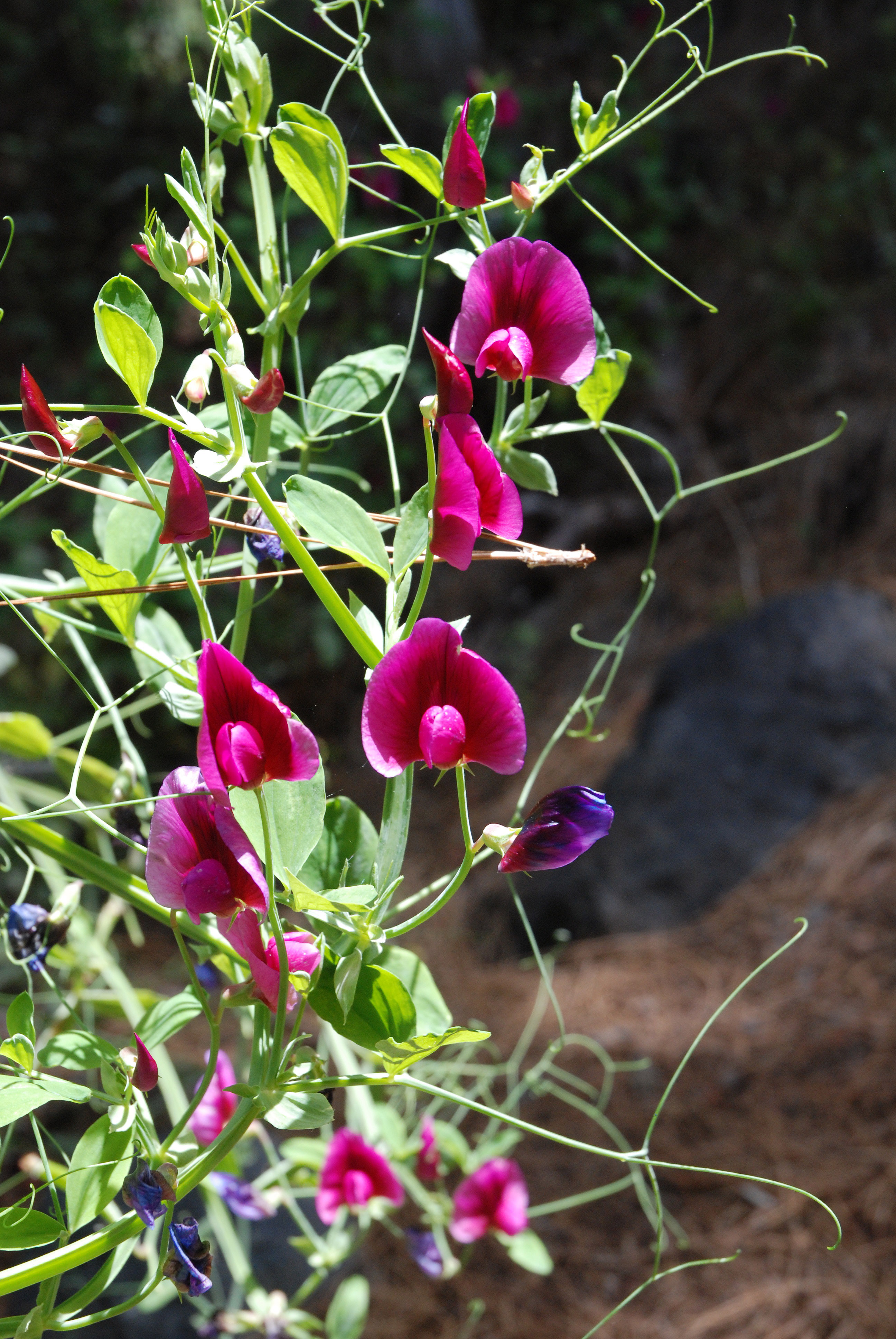 Lathyrus tingitanus, Near Los Brecitos, La Palma, Spain